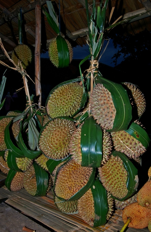 Durian (Durio zibethinus) fruit, wrapped with Arenga pinnata leaflets and sold at roadside market. Cigudeg, Bogor, West Java, Indonesia.